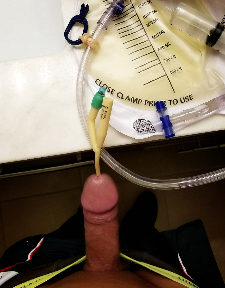 Foley catheter CH 14